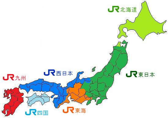 JapanRailwayCompany`s Area